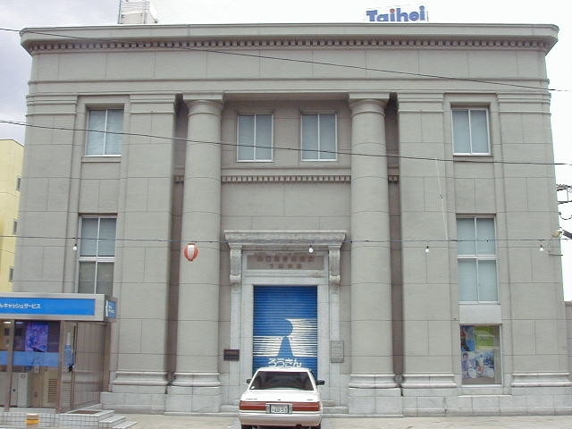 Old Fudo Chokin Ginko(Bank) Shimonoseki branch（Shimonoseki city,Yamaguchi Prefcture,Japan / Built in 1926 / Designed by Yotaro Sekine）